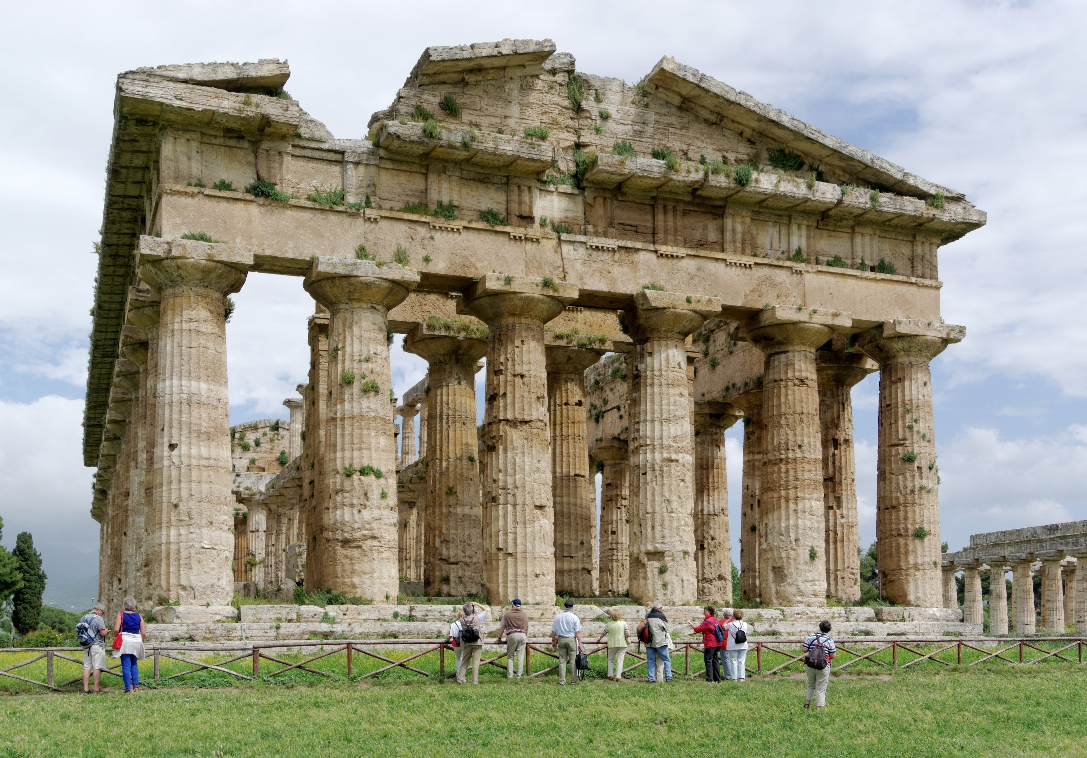 Italy, Paestum, Temple of Hera II (sometimes called the Temple of Neptune)